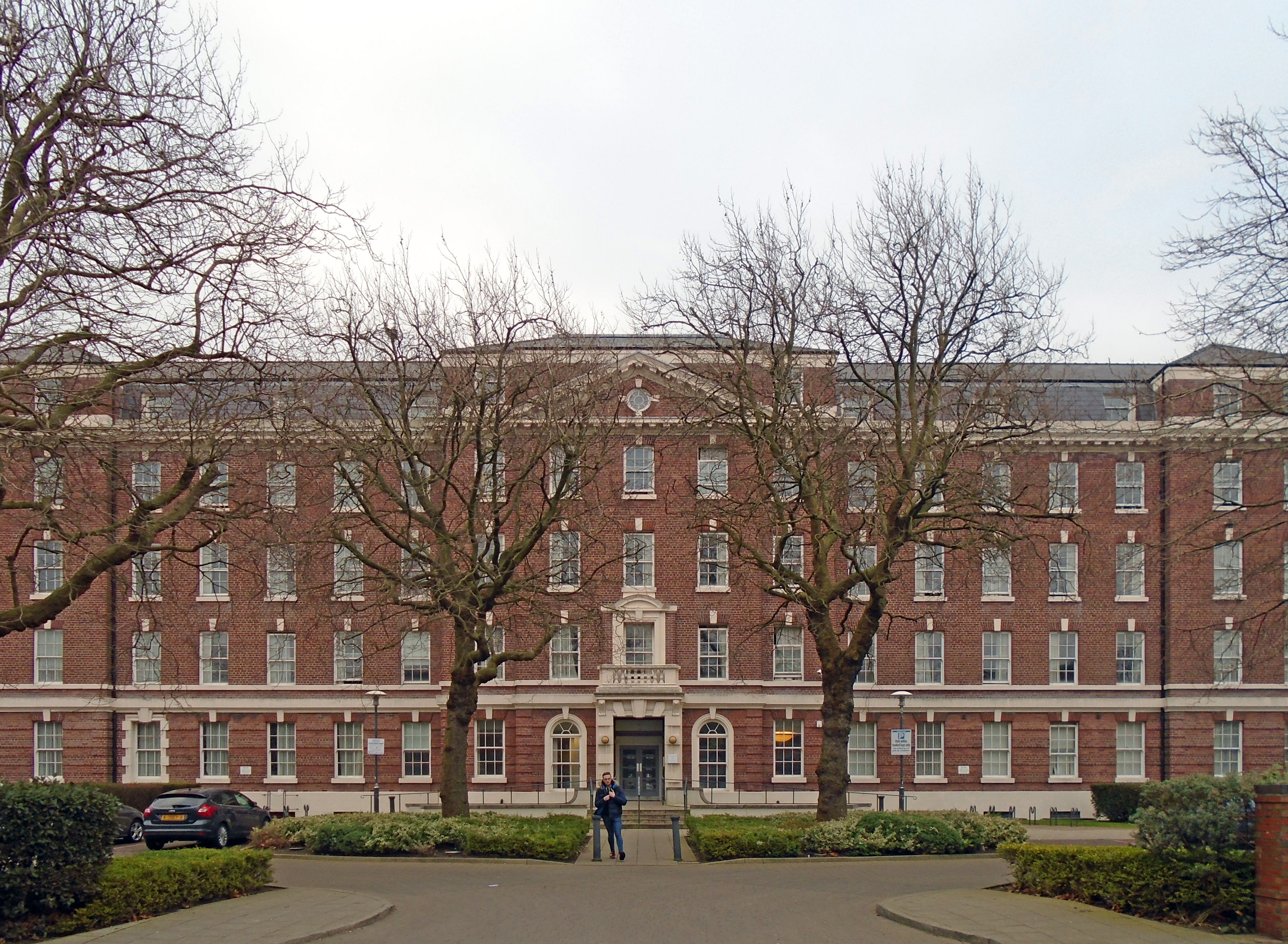 Front elevation